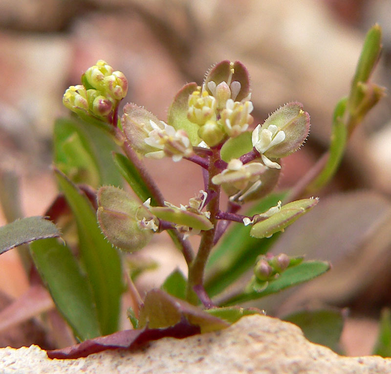 Lepidium lasiocarpum var. lasiocarpum in Calico Basin, west of Las Vegas, Nevada